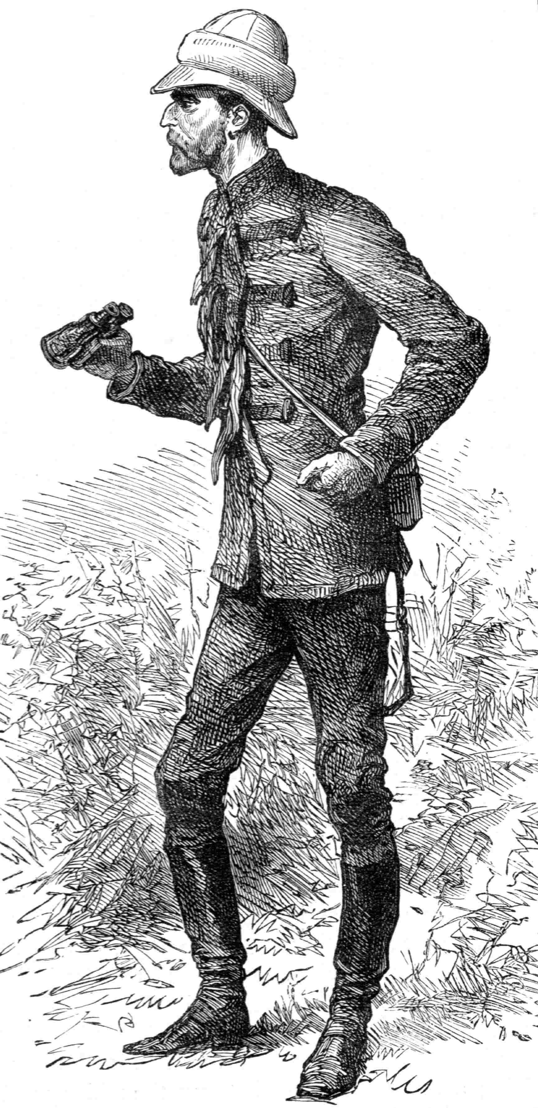 Caption printed with sketch says 'Sketch of Lord Chelmsford made by an officer shortly before the battle of Ulundi', which was July 1879. Frederick Thesiger, 2nd Baron Chelmsford (31 May 1827 – 9 April 1905)